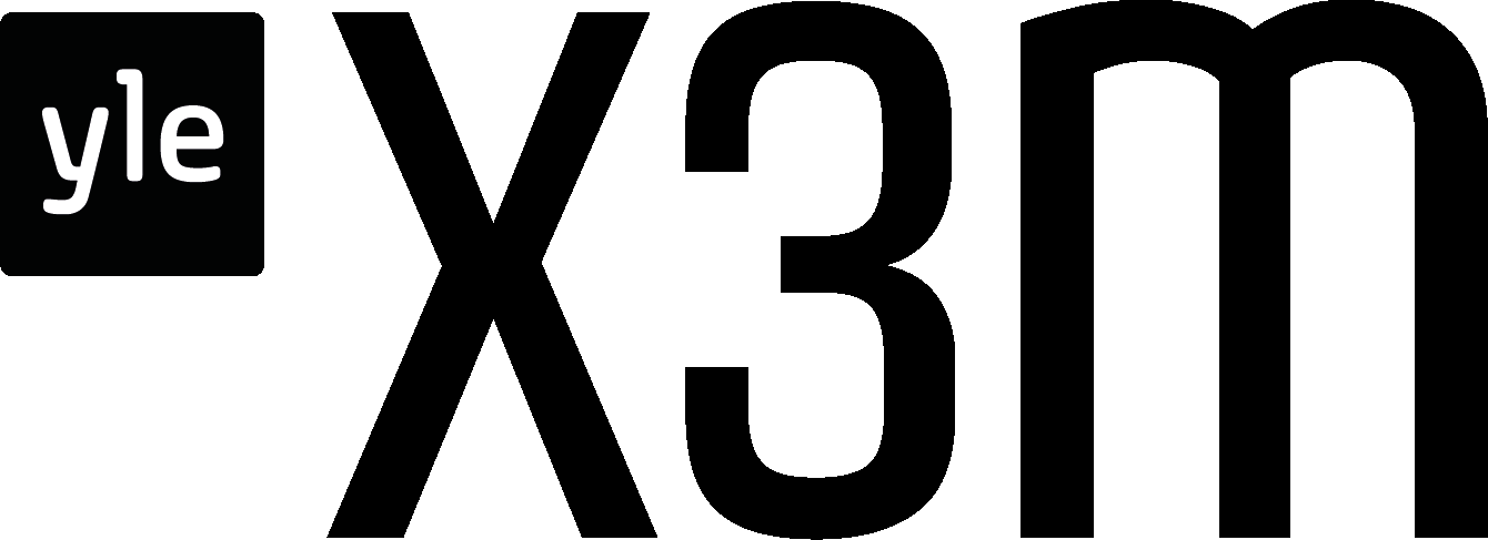 Yle X3M´s logo